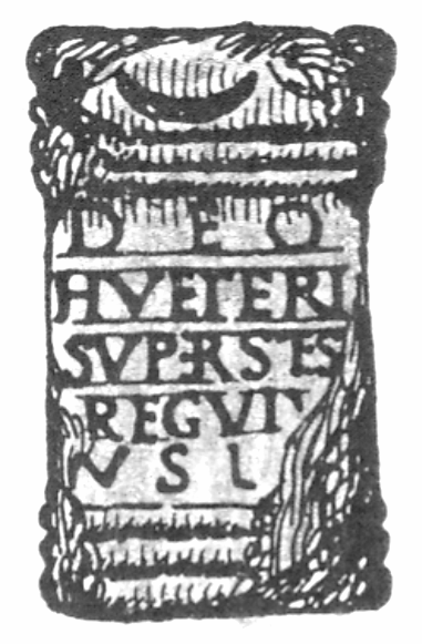 Altar dedicated to Hueteris, found 1910 in Housesteads roman fort. Partially underneath the south-west corner of the foundations of the interval tower between the east gate and the south-east angle-tower. Now in Chesters Museum.